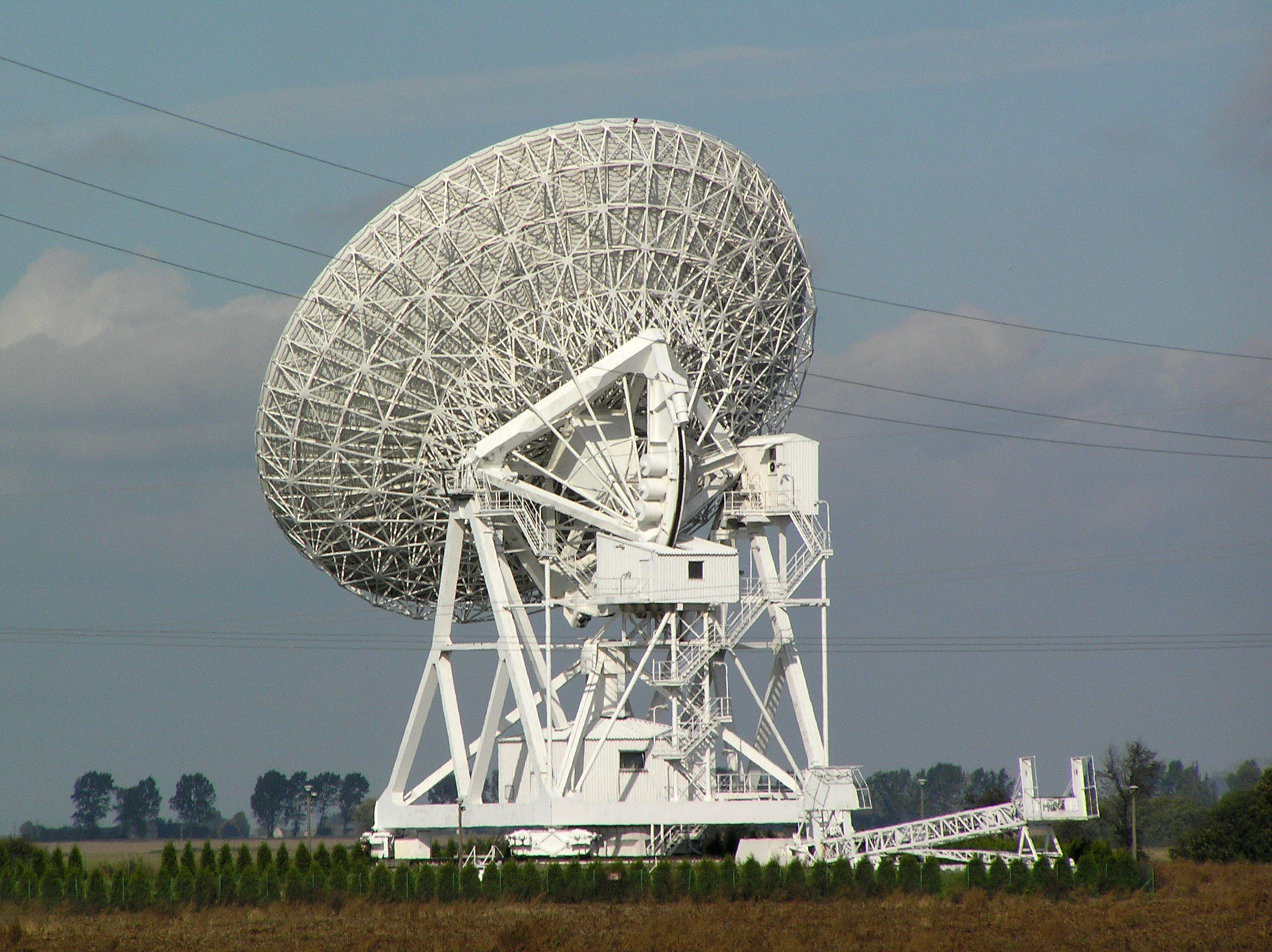 Piwnice near Toruń, radiotelescope of 32 m